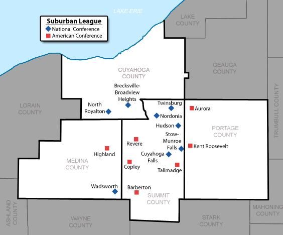 Map of the members of the Suburban League in Northeast Ohio as of 2015.